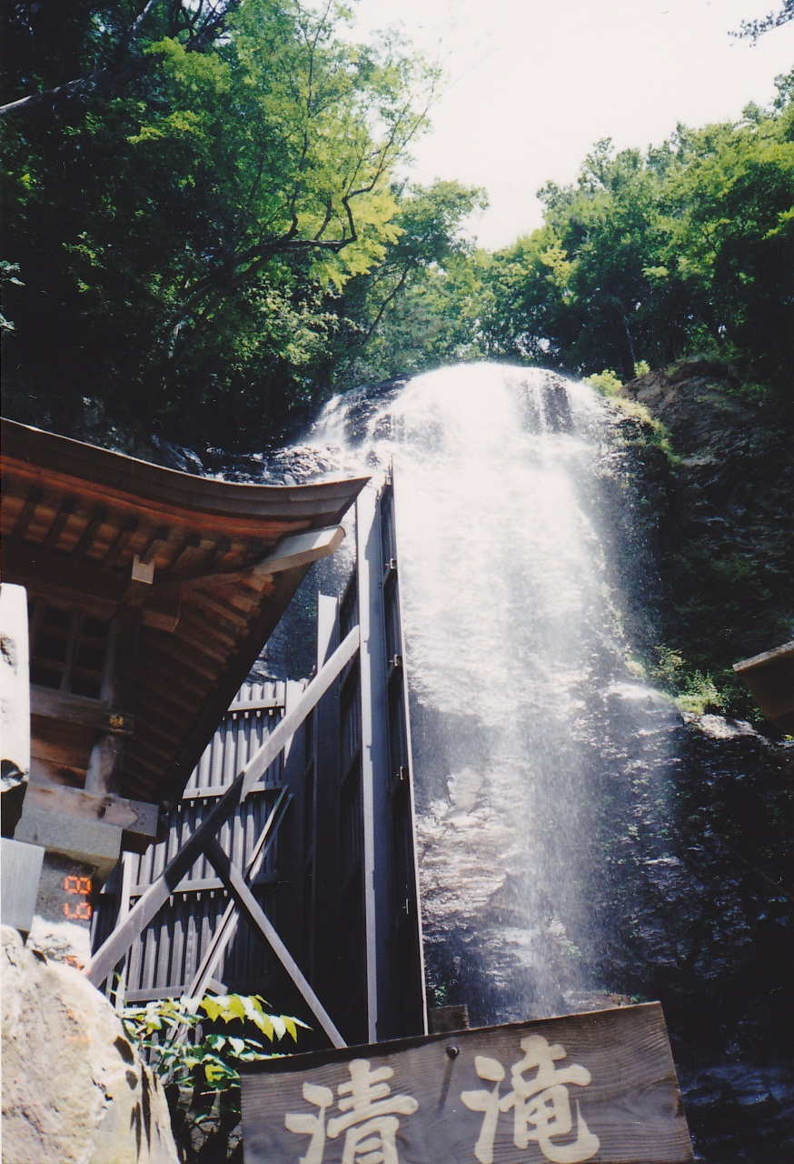 Kiyotaki in Mount Ontake, Otaki, Nagano, Japan.